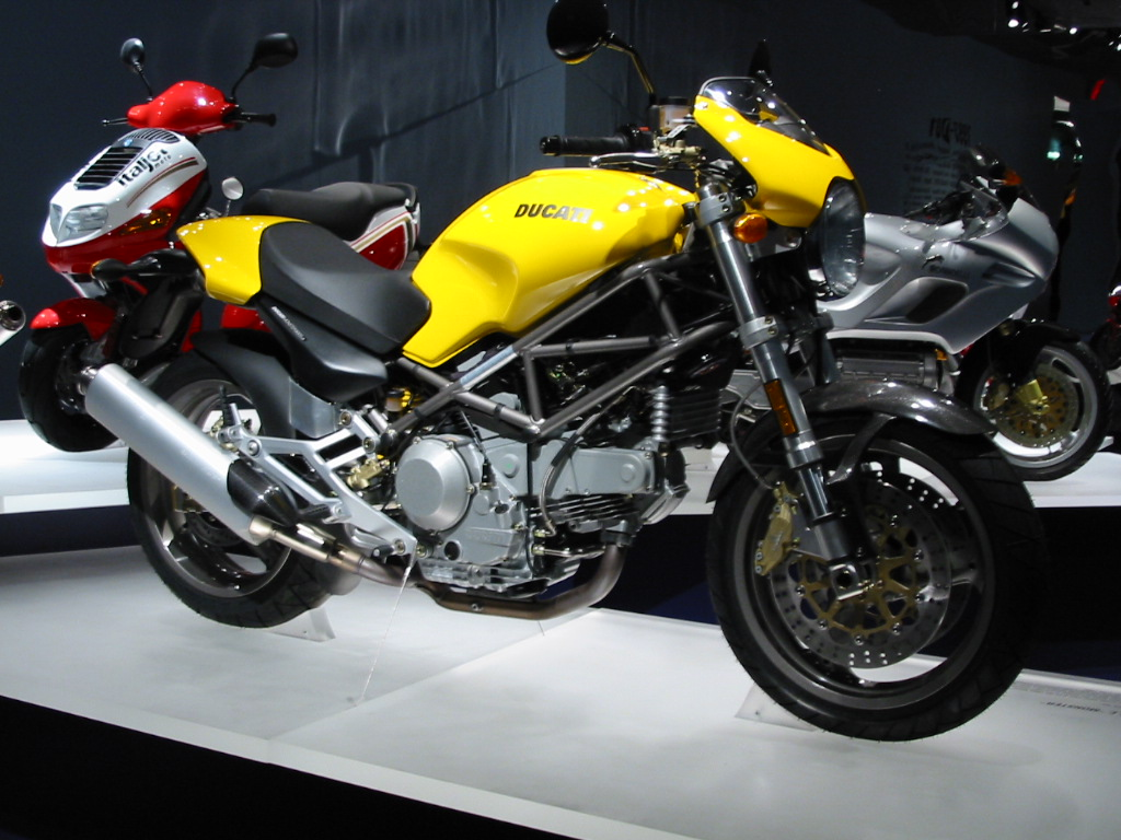 1993 Ducati Monster. 903 cc, bore x stroke 92 x 68 mm, power 66.6 hp @ 7000 rpm, top speed 128 mph (206 km/h) Courtesy of Ducati Motor SpA, Bologna. The Art of the Motorcycle, Guggenheim Las Vegas.